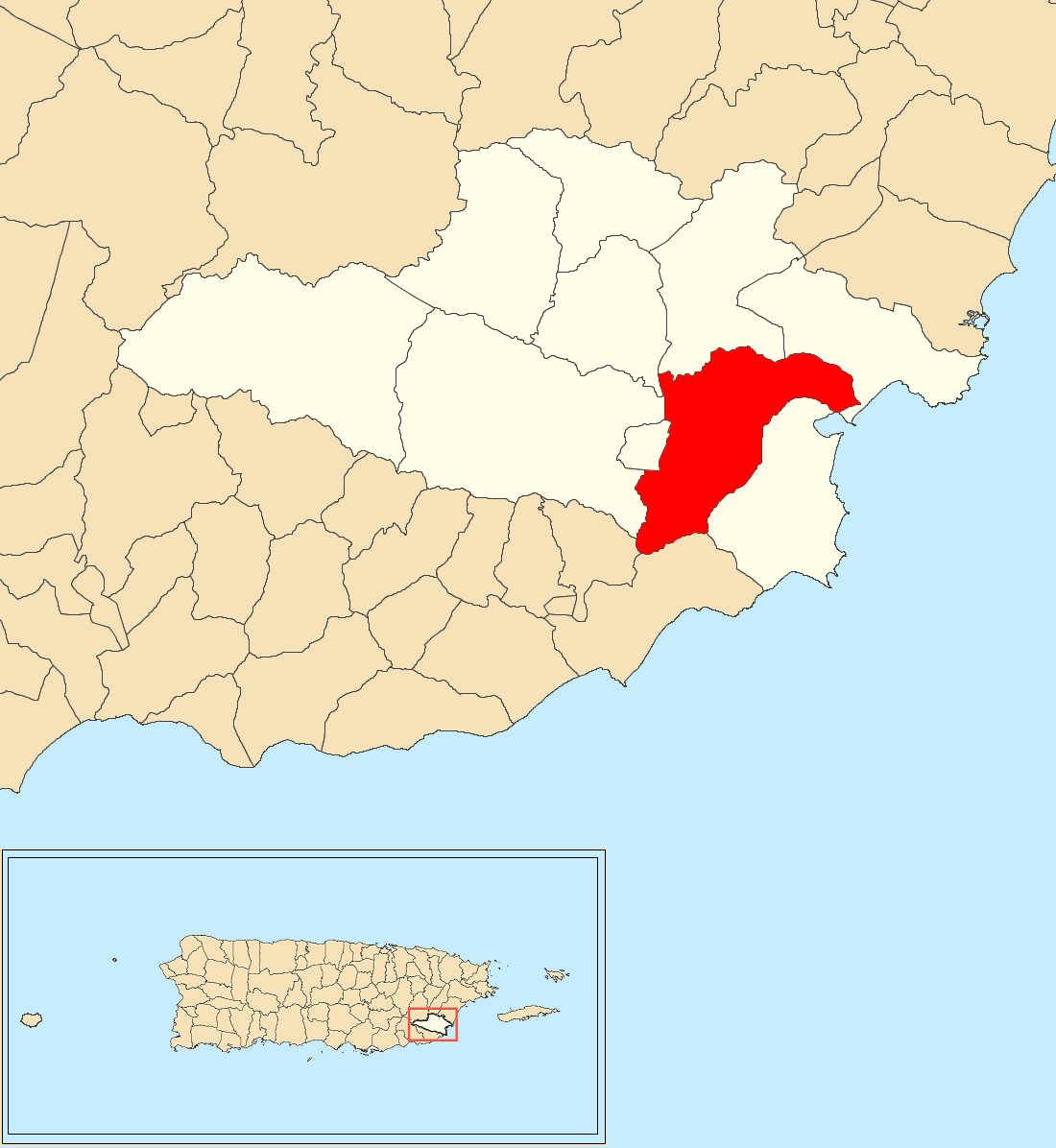 Juan Martín, Yabucoa, Puerto Rico locator map